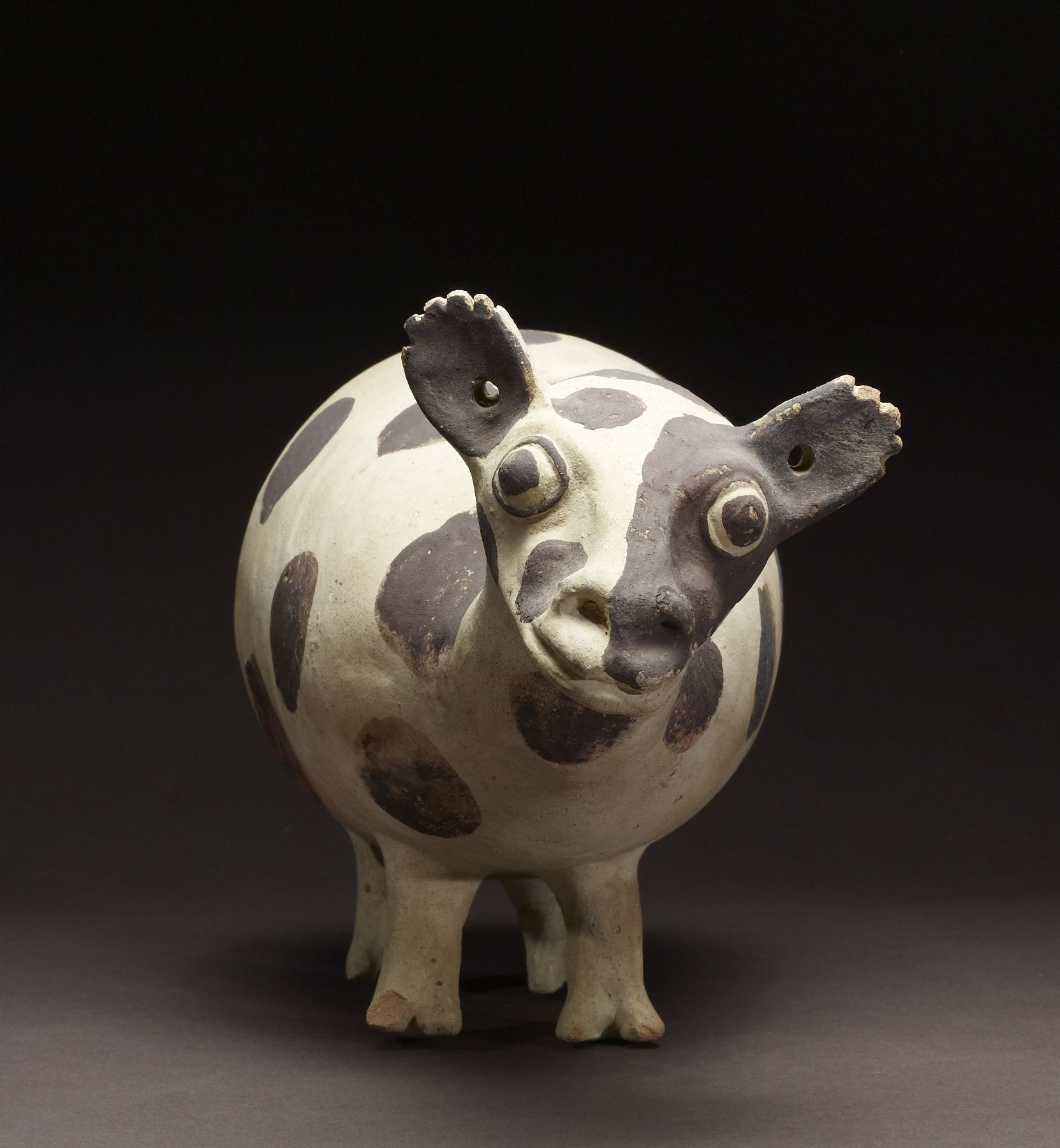 The llama, a native camelid of the Americas, touched all aspects of Andean life. The llama- the only native American beast of burden-was used primarily to transport goods from the coastal deserts to the highest mountain plains. Well adapted to the extremes of the Andean environment, including climate, terrain, and altitude, the llama was at the heart of every Andean home. The llama and its camelid cousins (alpaca, guanaco, and vicuña) provided the all-important hairs that were spun into fibers to weave warm garments of considerable strength and durability. Such clothing was crucial for survival during cold Andean nights and in the altiplano highlands. Llamas also provided body heat for shepherds and other laborers who could not return to a warm home every night. Llama blood was an important ritual offering, and its meat was occasionally consumed for protein, although the high value of the living animal made these latter uses infrequent and of special significance. During the Late Intermediate Period, the Chancay Valley and adjacent Chillón Drainage developed an energetic corporate style of architecture and art. Large amounts of ceramics were produced and distributed among the ruling elite as well as those of lesser status. Among these are the distinctive mold-made and hand-modeled sculptures of humans (both men and women) and animals. This engaging sculpture of a young llama captures the animal's natural inquisitiveness. It cocks its head slightly to the side as if watching intently some unseen activity. The artist divided the llama's face into two halves, painting one side white and the other black, following the Andean principle of duality and balance. The artist also designated the animal's sex as male, and embellished the body with black spots, one of the natural coloration schemes of the animal. Typical of the distinctive Chancay pottery style is the somewhat haphazard modeling and painting, which enhance the piece's charm.